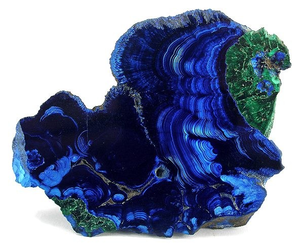 Azurite, Malachite Locality: Bisbee, Warren District, Mule Mts, Cochise County, Arizona, USA (Locality at ) Size: 8.6 x 7.5 x 3.1 cm. This is a spectacular example of a really rich layered azurite that is of top carving grade, rife with intricate natural patterns. It is so bright, it is almost electric. The back of the nodule is left natural, and is not cut and polished. Ex. Ron Bentley Collection.